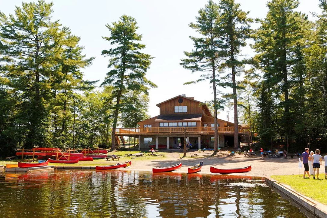 Bark Lake, Columbia International College